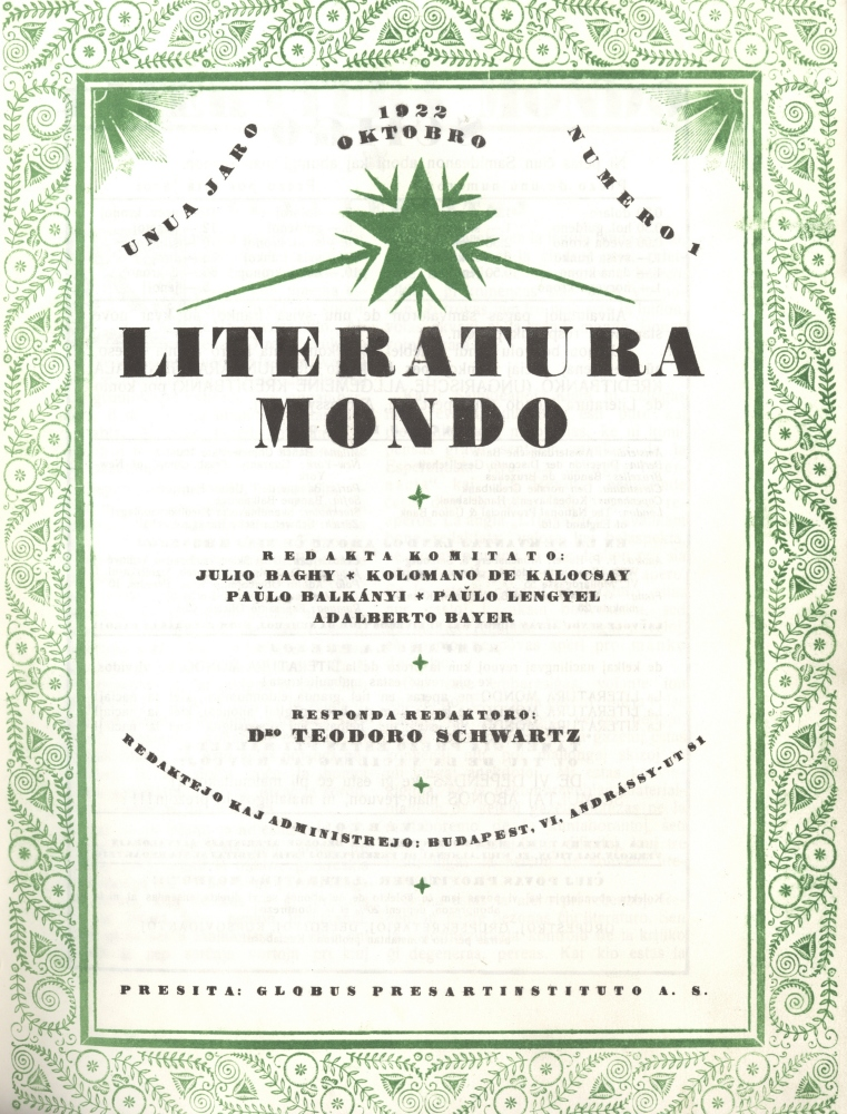 Literatura Mondo (first number)